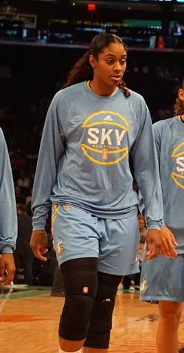 Cheyenne Parker at 3 September Sky-Liberty game